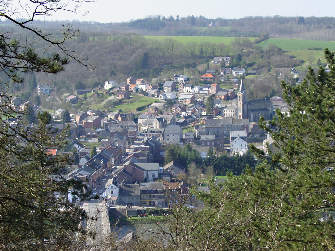 Hamoir from the Belvédère de Coïsse, a viewpoint to the east of the town